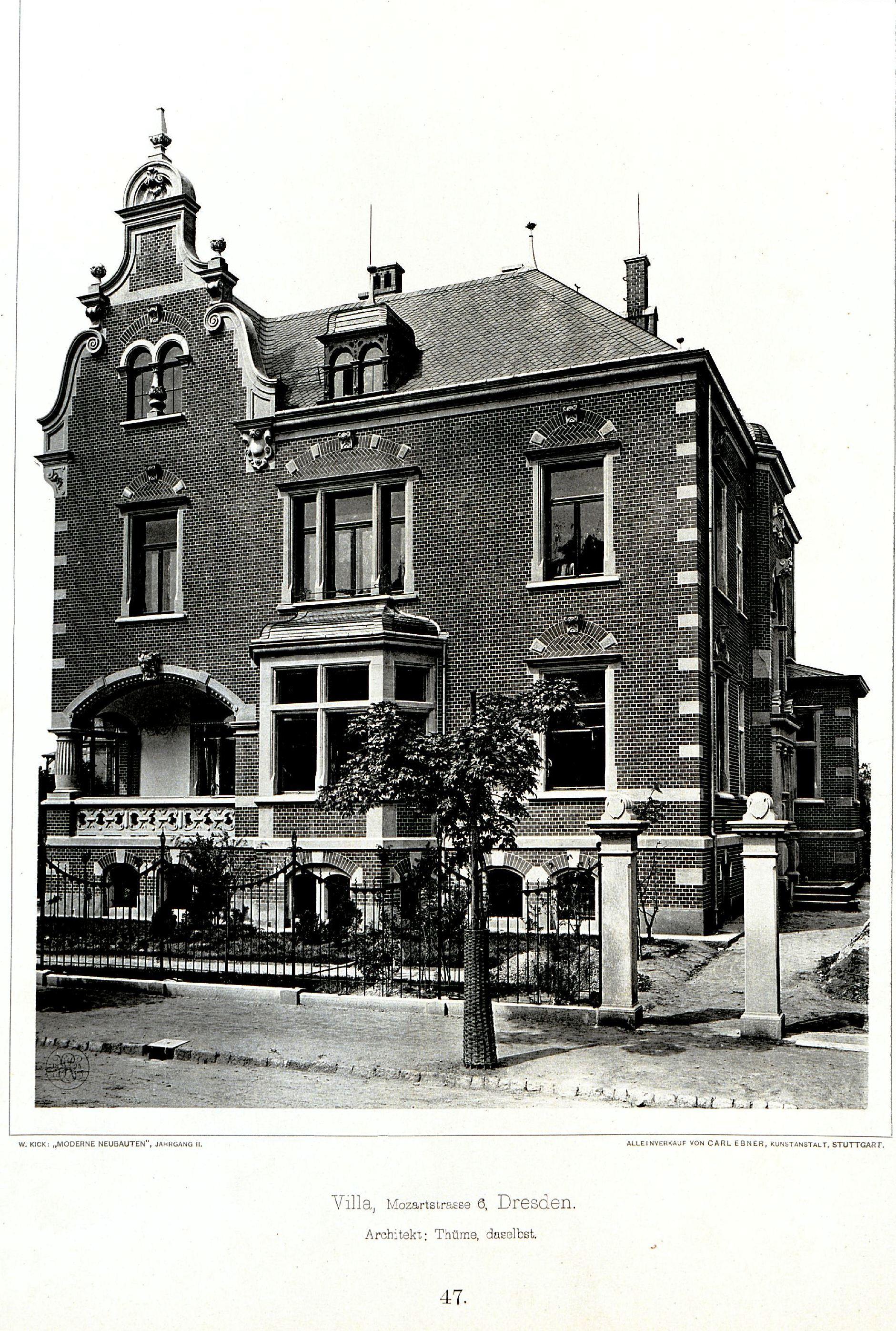 Villa,_Mozartstrasse_6,_Dresden,_Architekt_Thürne_Tafel_47,_Kick_Jahrgang_II.jpg